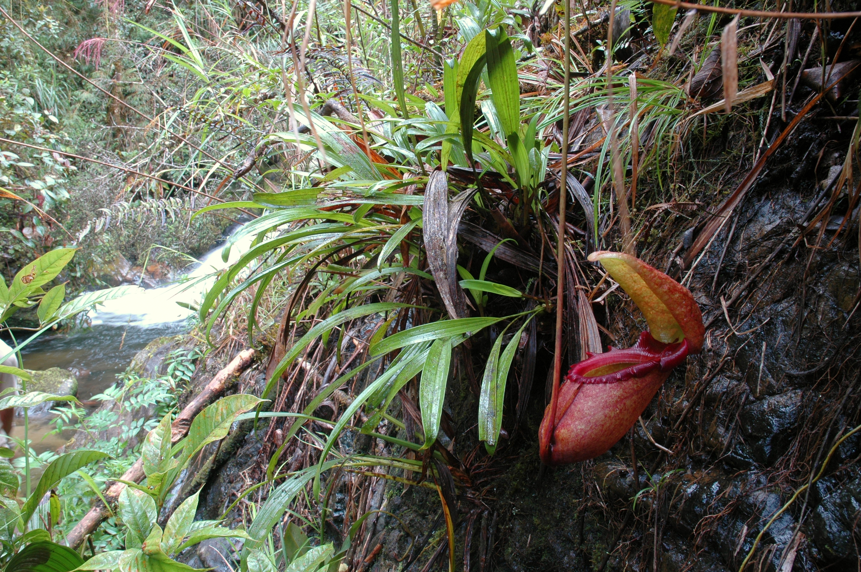 Nepenthes rajah Kinabalu waterfall by Jeremiah Harris